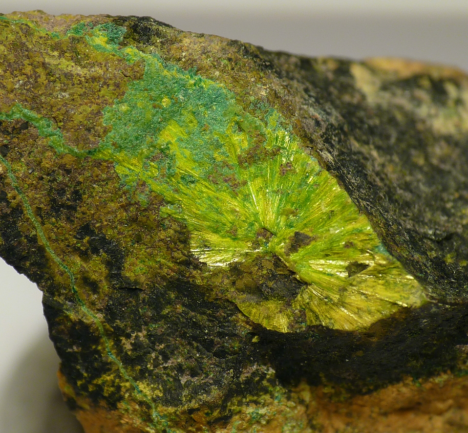 Astrocyanite-(Ce), Kamotoite-(Y) Locality: Kamoto East Open cut, Kamoto, Kolwezi District, Katanga (Shaba), Democratic Republic of the Congo Field of view 2.5 cm. Specimen and photo Leon Hupperichs.